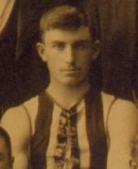 Photograph of Wal Gillard in1896 .